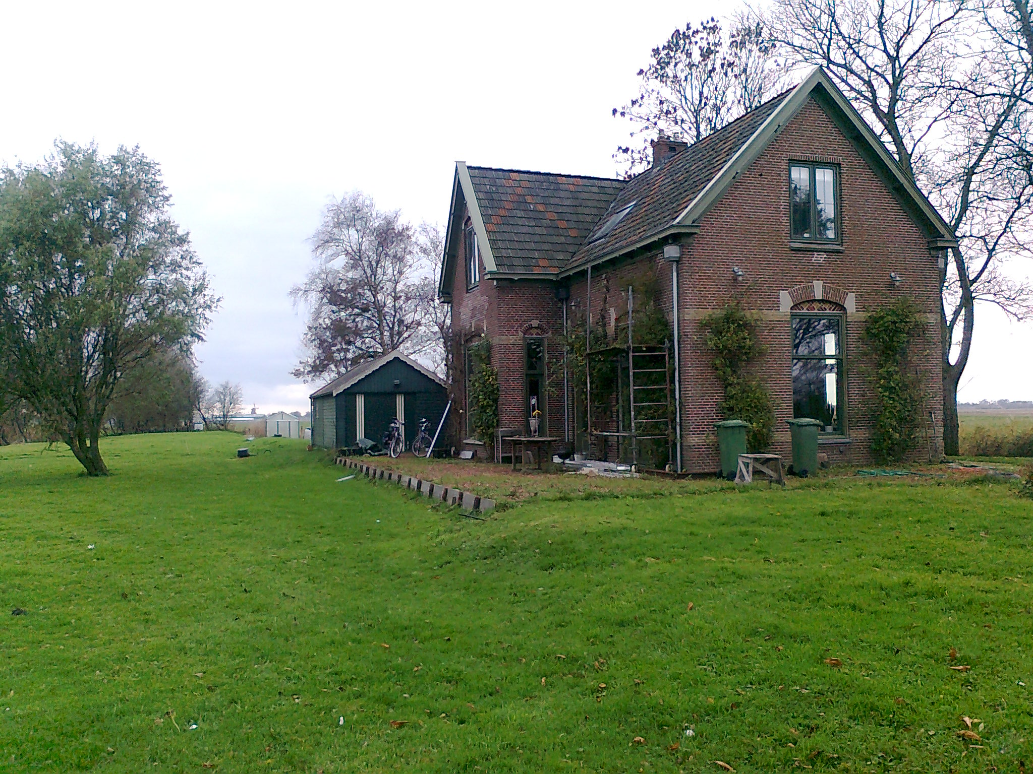 Railway station Morra-Lioessens